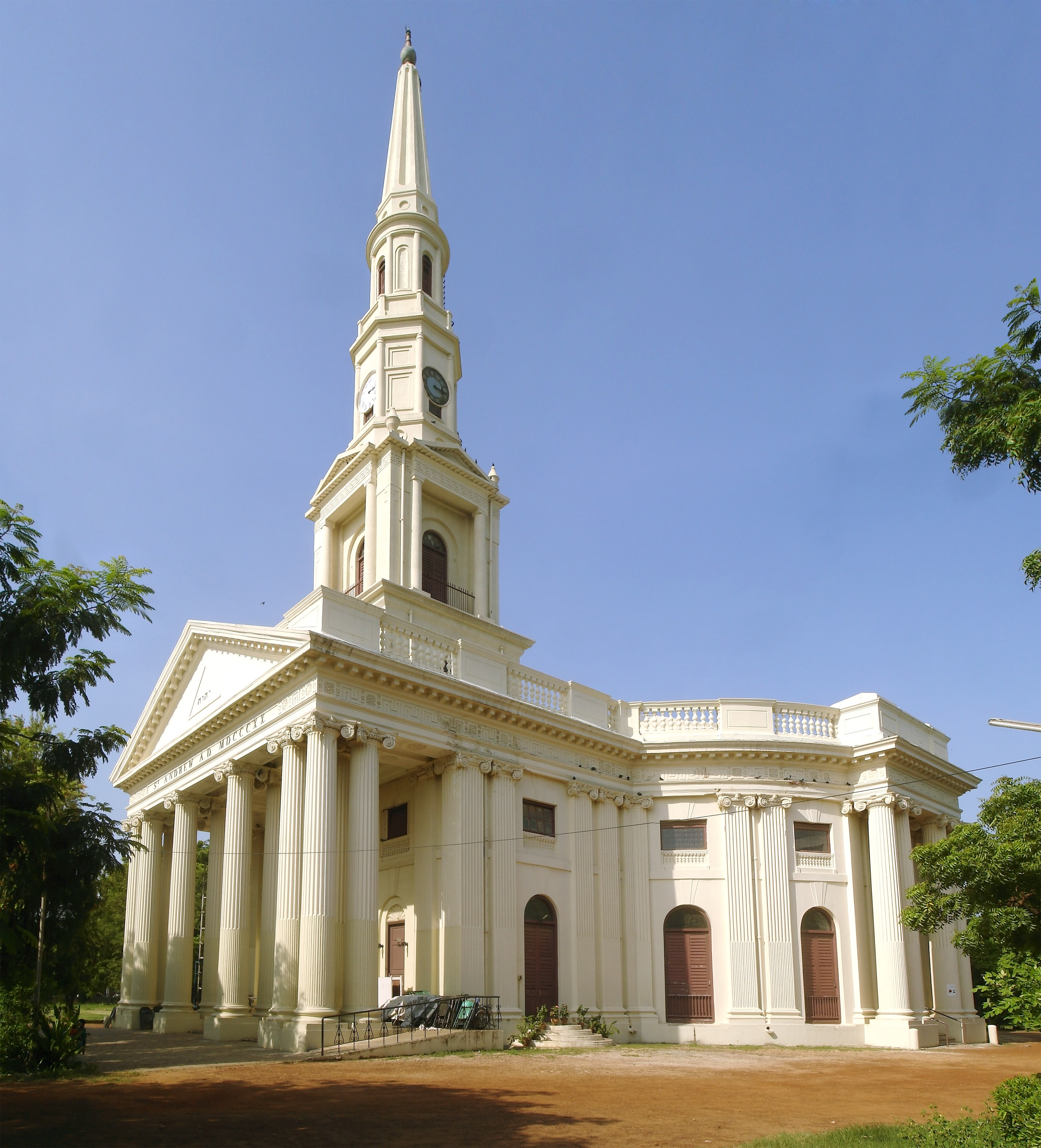 Facade of the St Andrews Church, Chennai